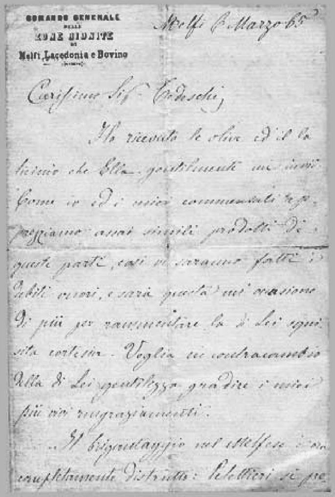 Letter from Melfi written by general Govone writing: in the Melfi country the brigantage is fully destroied